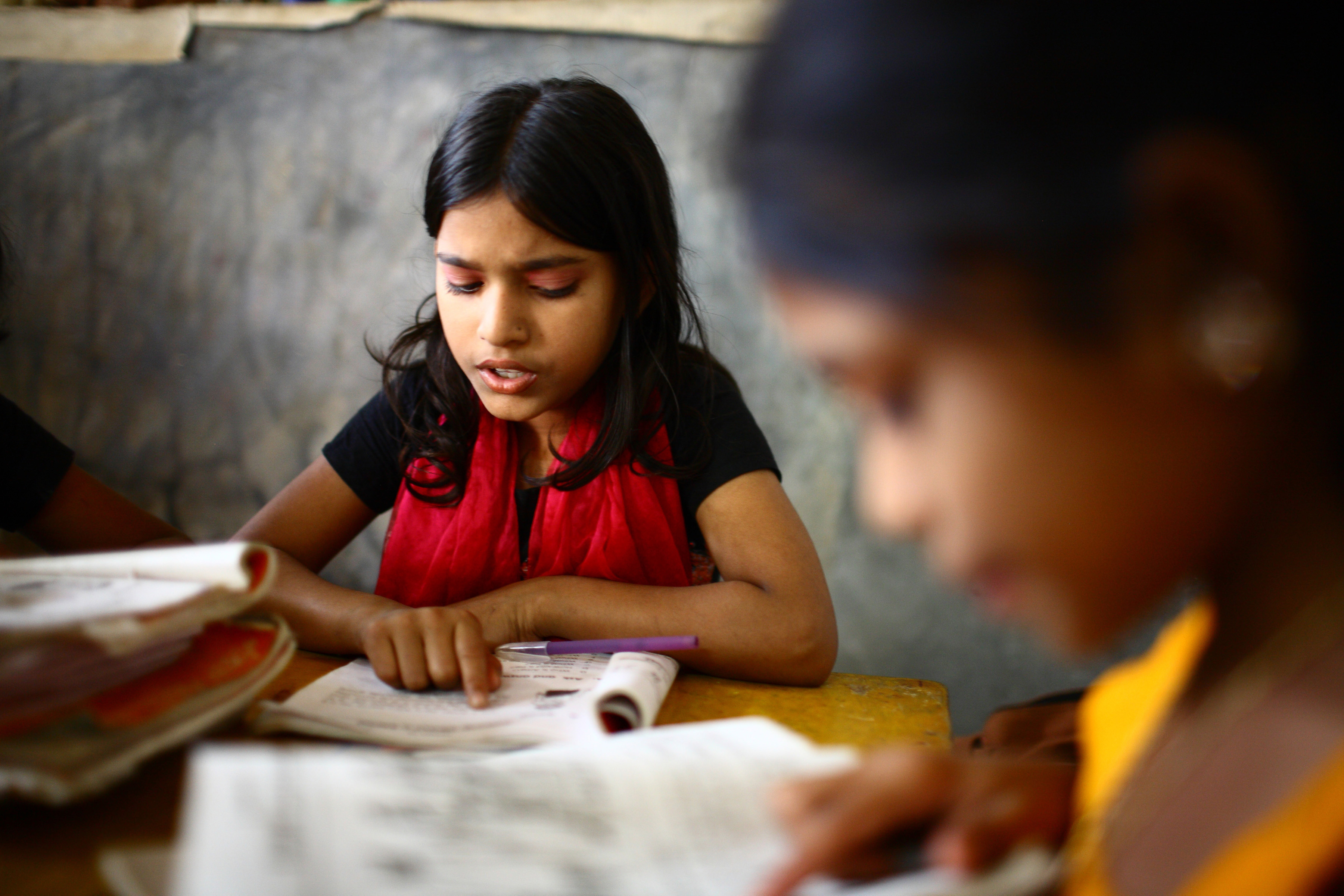 10 years old Dipa and 12 years old Laboni study in class 2 at "Unique Child learning Center", Mirmur-Dhaka, Bangladesh